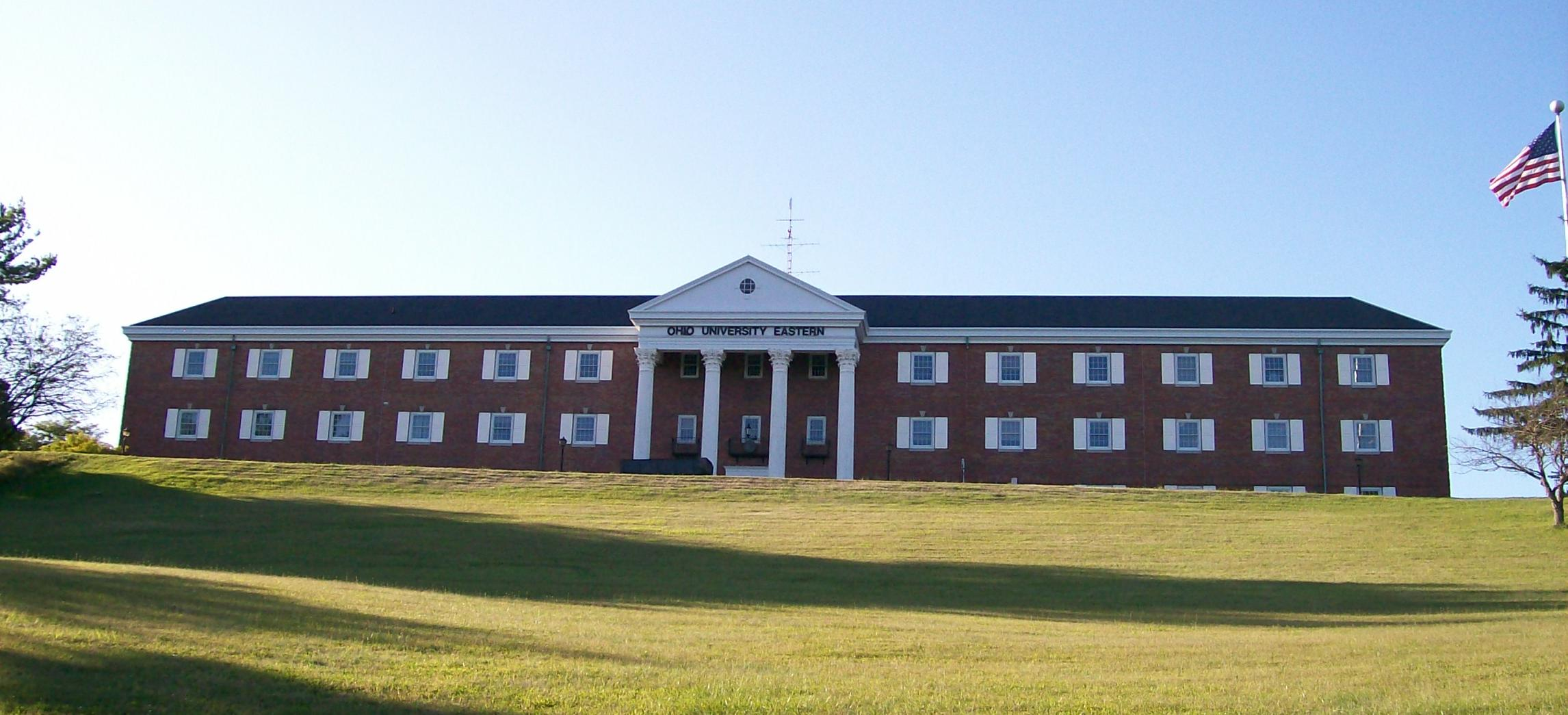 Ohio University Eastern's Shannon Hall near St. Clairsville, Ohio